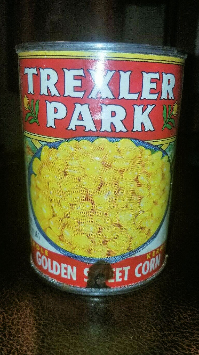 Trexler Park Golden Sweet Corn Can - Allentown PA